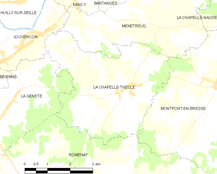 Map of French municipality